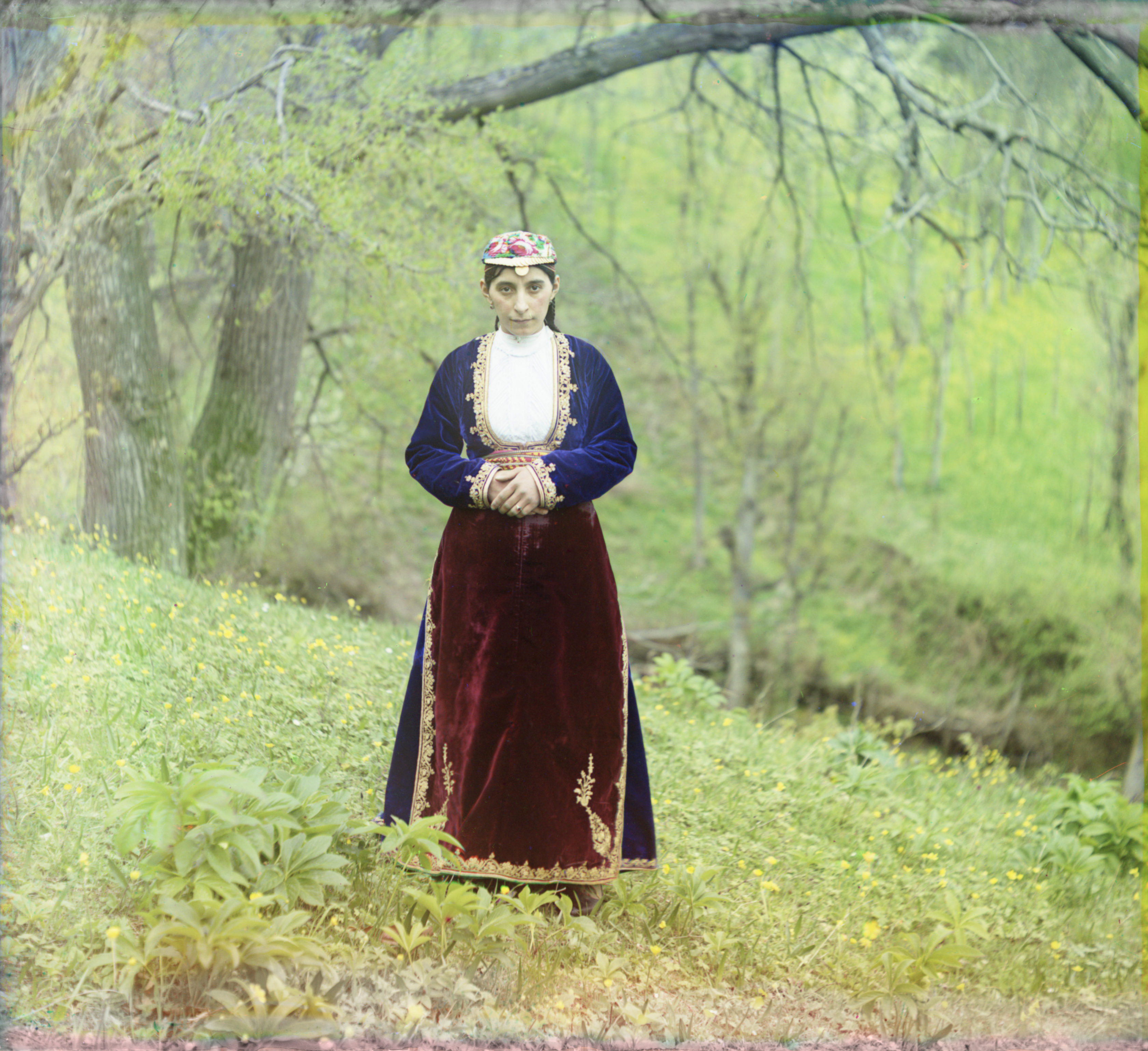 An Armenian woman from Artvin in national costume, photographed by Sergey Prokudin-Gorsky between 1909 and 1912. The scan was made using a three-color separation process. This is a digitally restored photograph, which was altered only to remove dark scratches, color-separation spots, color-separation color bleed, and writing. Contrast and colors were not enhanced nor was the image sharpened. The image was cropped from the full-frame negative to remove the frame. The image was not stretched or warped as it was already straight during the scanning process. Restoration work was performed on the original TIFF file downloaded from the U.S. Library of Congress Prints & Photographs Online Catalog.